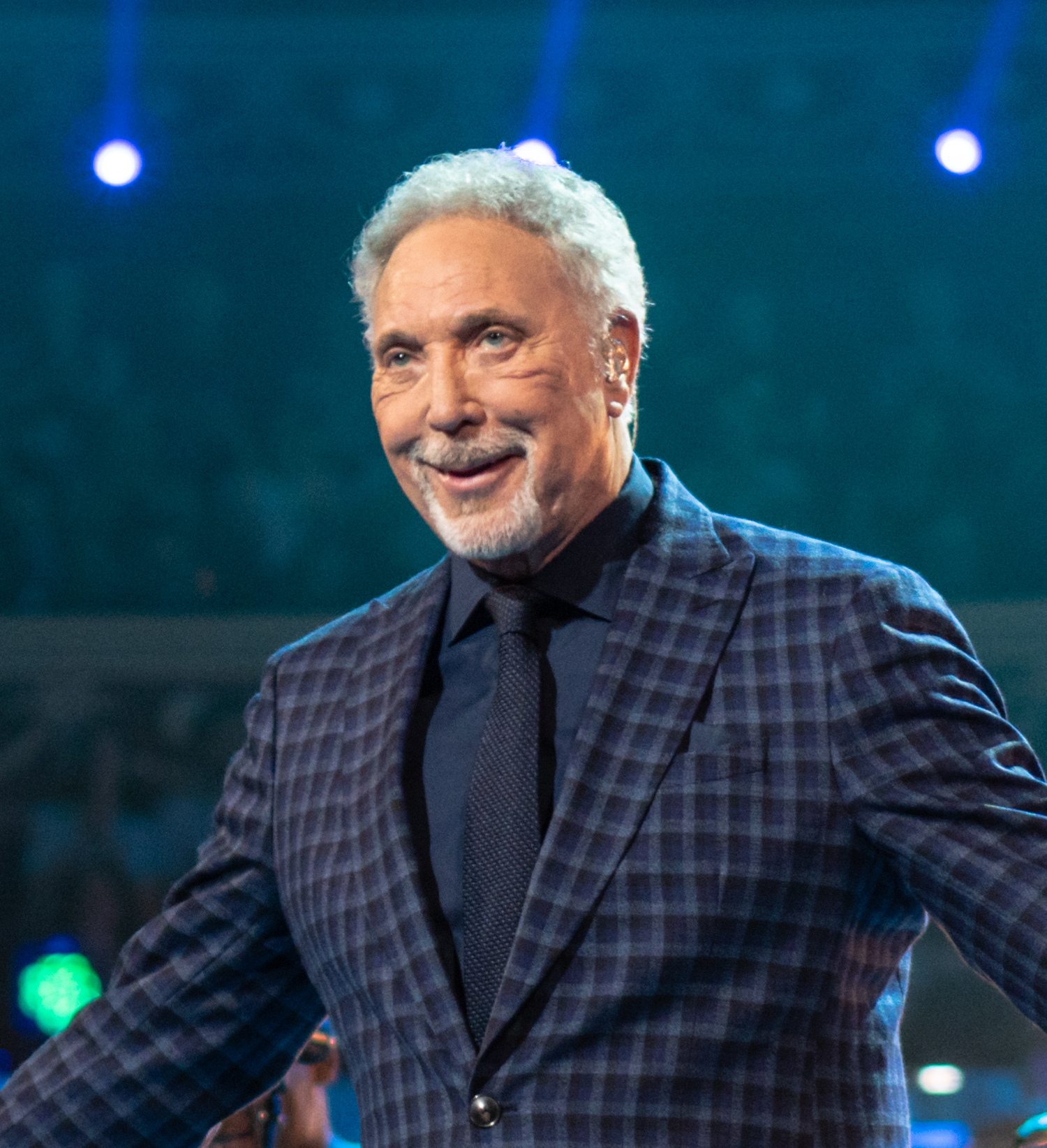 Sir Tom Jones at The Queen's Birthday Party